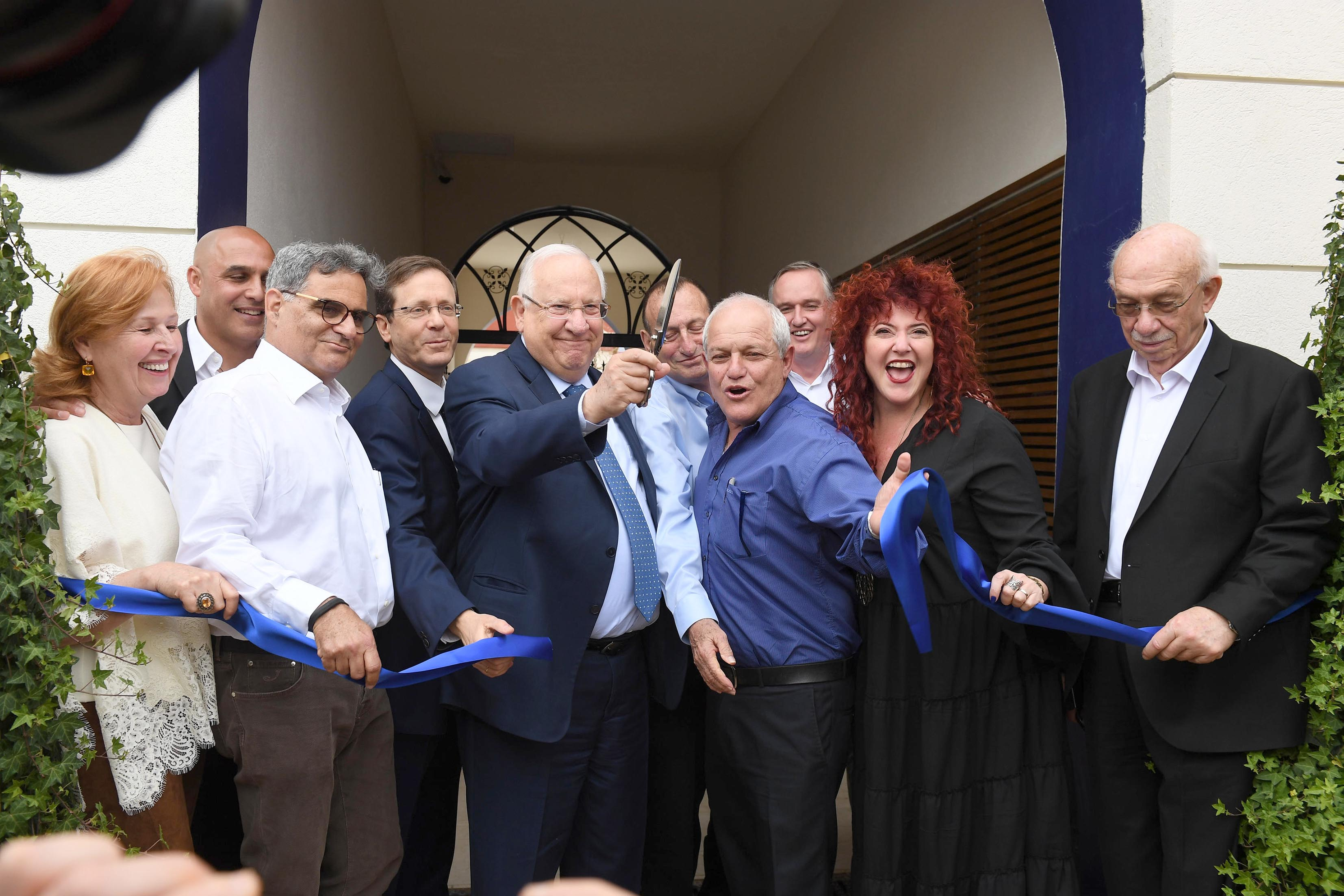 The President of Israel, Reuven Rivlin, at inauguration of the new "Shanti House" in Tel Aviv. Thursday, March 15, 2018. Photo Credit: Mark Neyman / GPO.